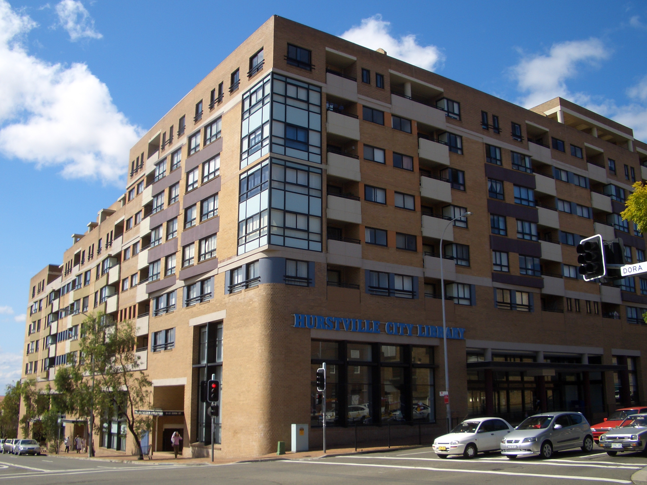 Hurstville City Library